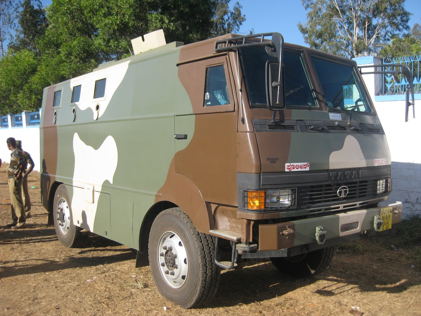 Tata Vehicle of the Karnataka police at Aero India 2011